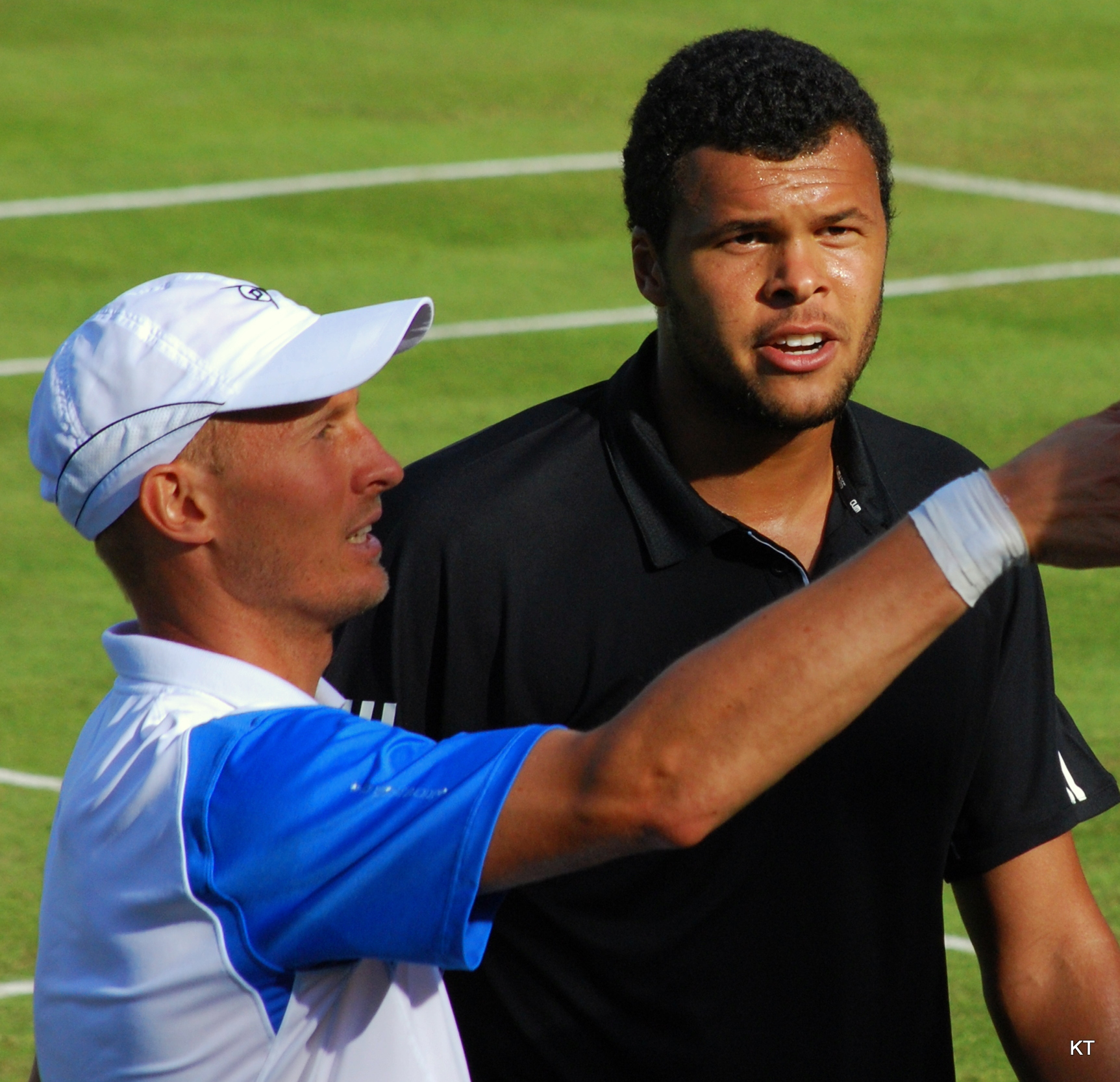 Davydenko & Tsonga at The Boodles, Stoke Park, 2010.